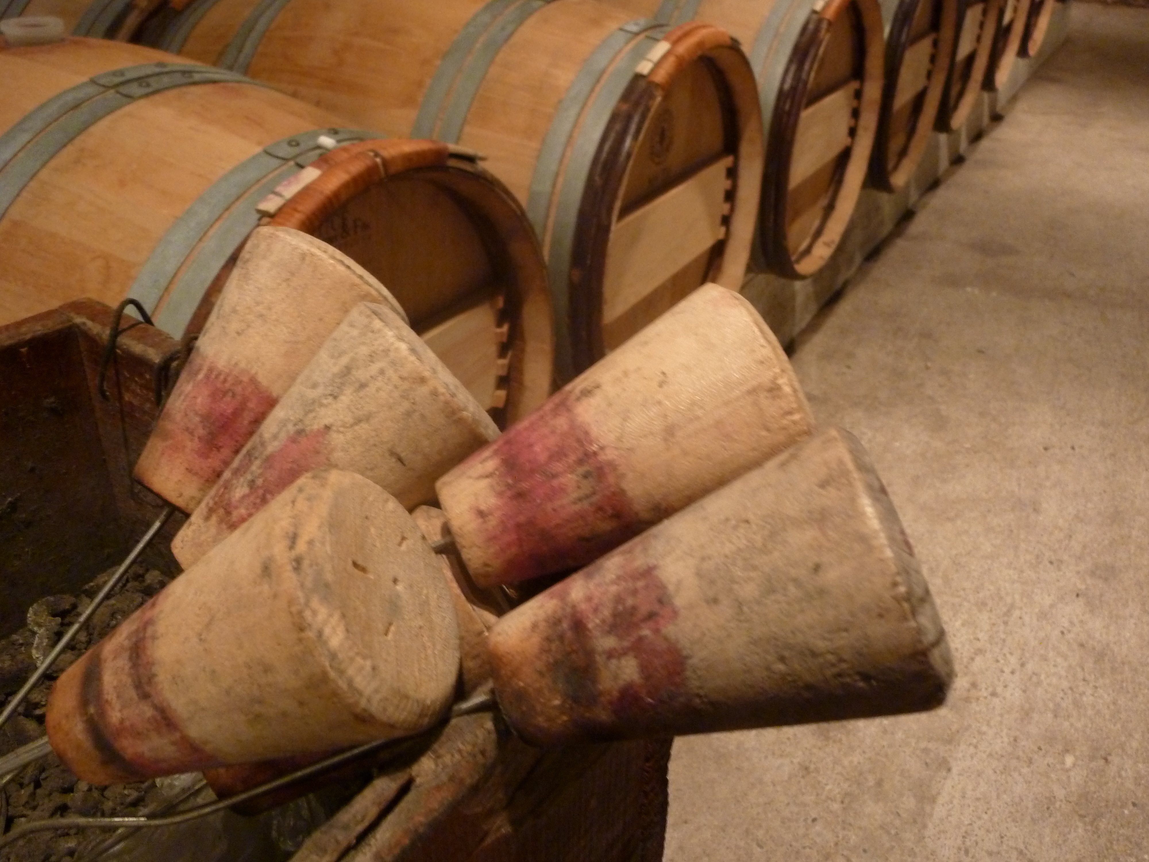 Wood bungs that are attached to a canister that can contain a lighted sulfur disc which will burn inside the empty wine barrel to sanitize it.